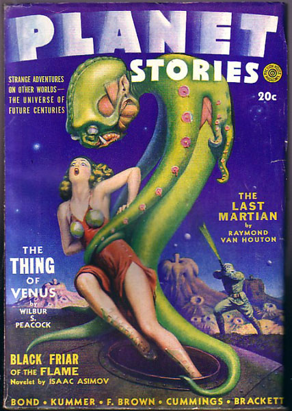 Cover of Spring 1942 issue of Planet Stories. Artist is Alexander Leydenfrost. Copyright was either Leydenfrost, or more likely Fiction House, who published the magazine.